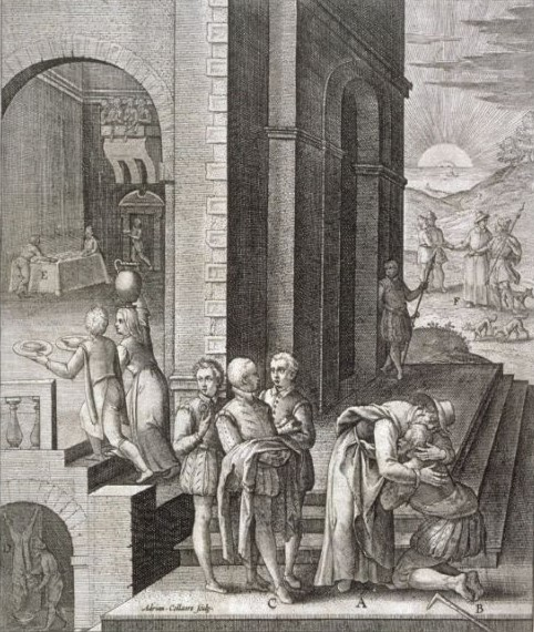 The Return of the Prodigal Son, from Evangelicae Historiae Imagines